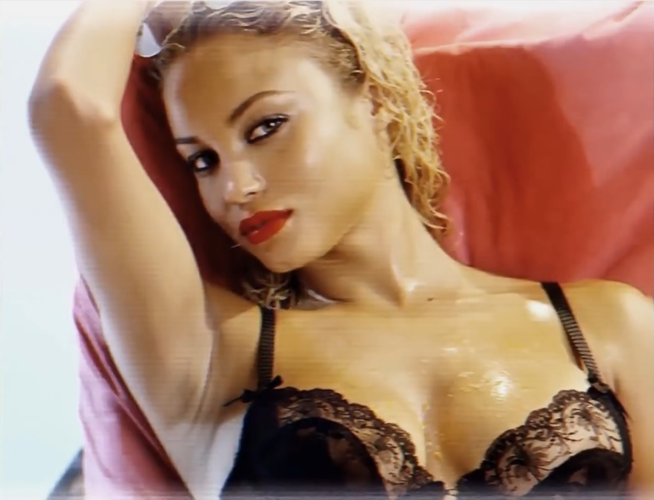 Belgian model Rose Bertram, for LOVE magazine Advent 2016